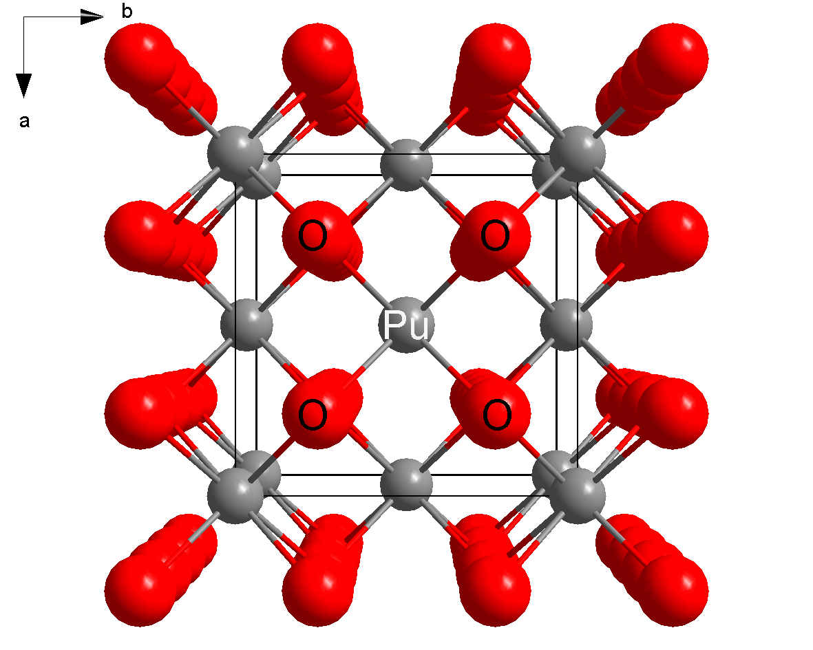 Crystal structure of plutonium dioxide in space group Fm-3m.